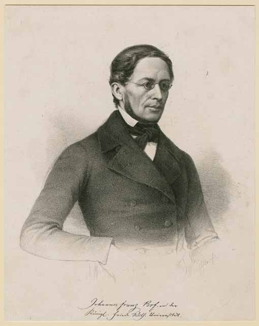 The german pilologist Johannes Franz (1804-1851)